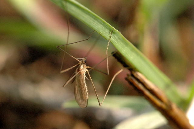 Picture taken in Commanster, Belgian High Ardennes . Species: Phylidorea ferruginea